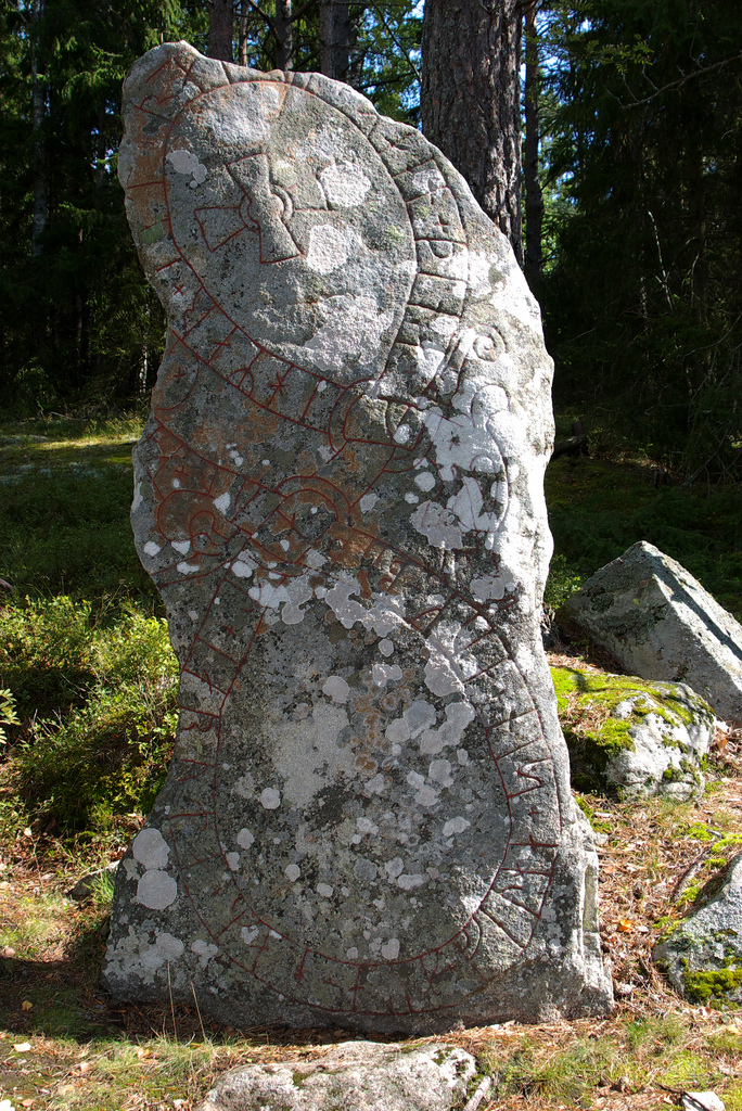 Runestone Sö 292 in Bröta, Södermanland, Sweden English translation of runic text: Vígmarr had this stone raised in memory of Jôrundi/Jôrundr, his kinsman-by-marriage and partner and the brother ...